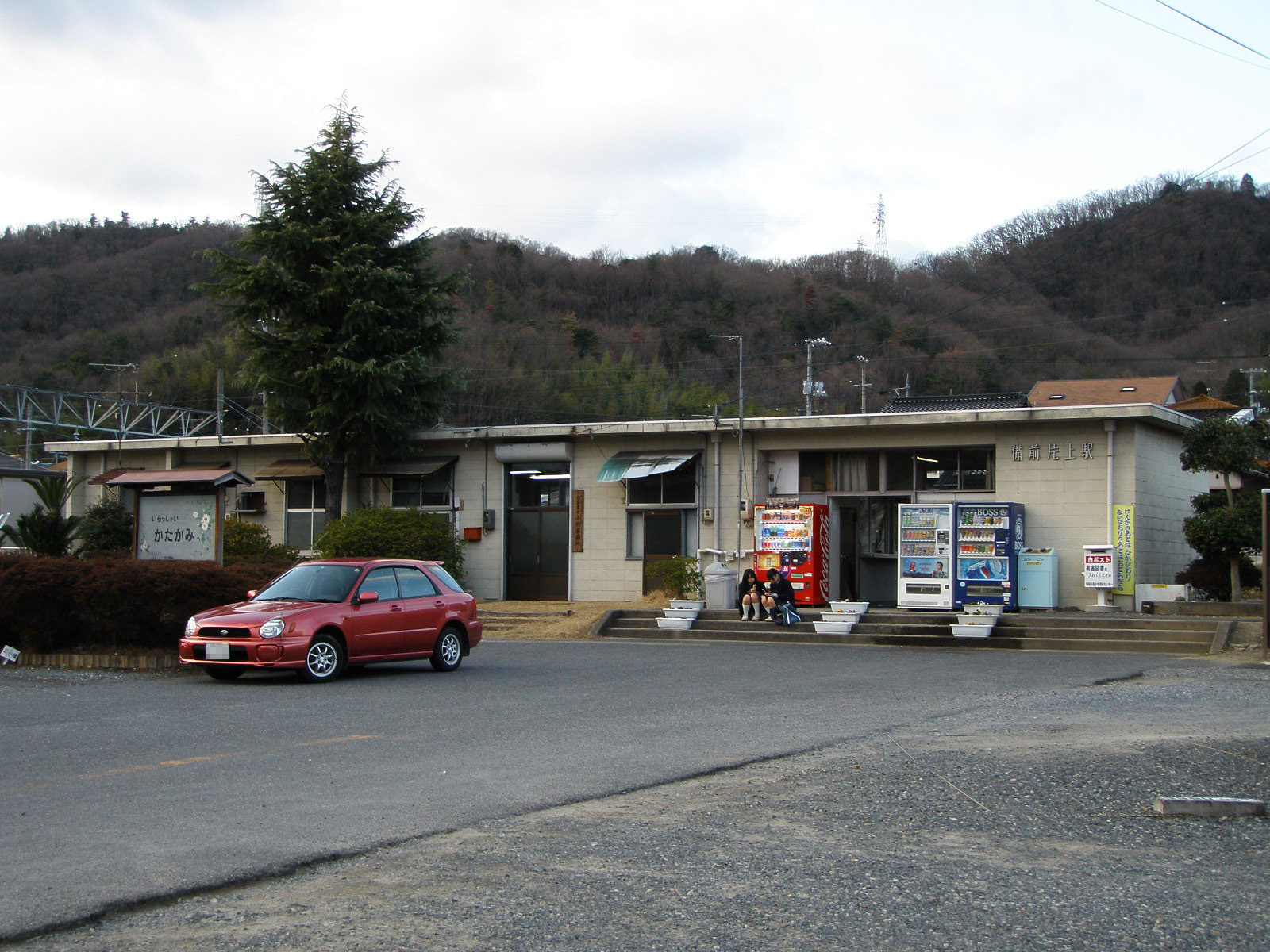 West Japan Railway Ako Line Bizen-Katakami Station Building